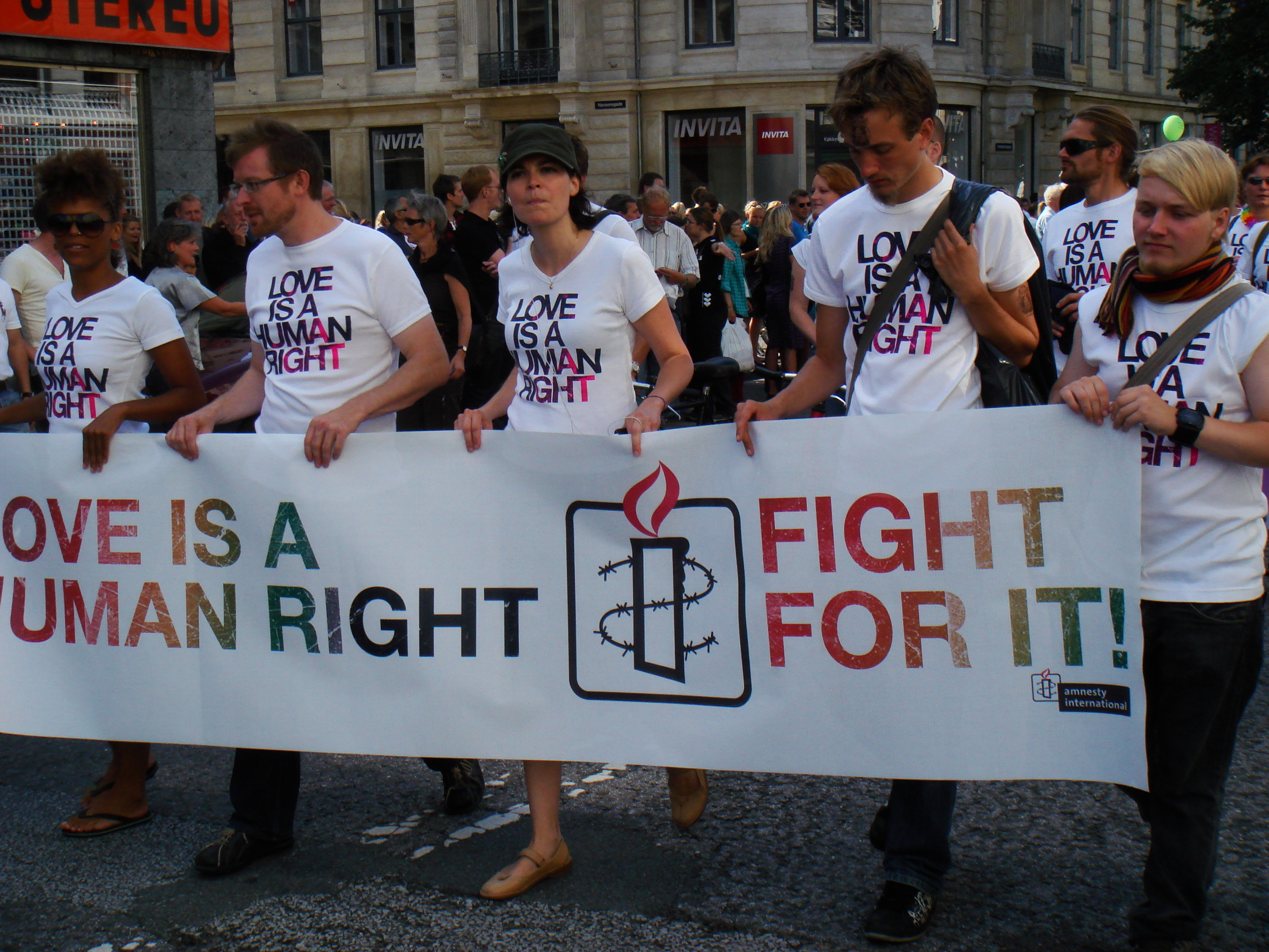 Copenhagen gay pride 2008. Picture by Stefano Bolognini.